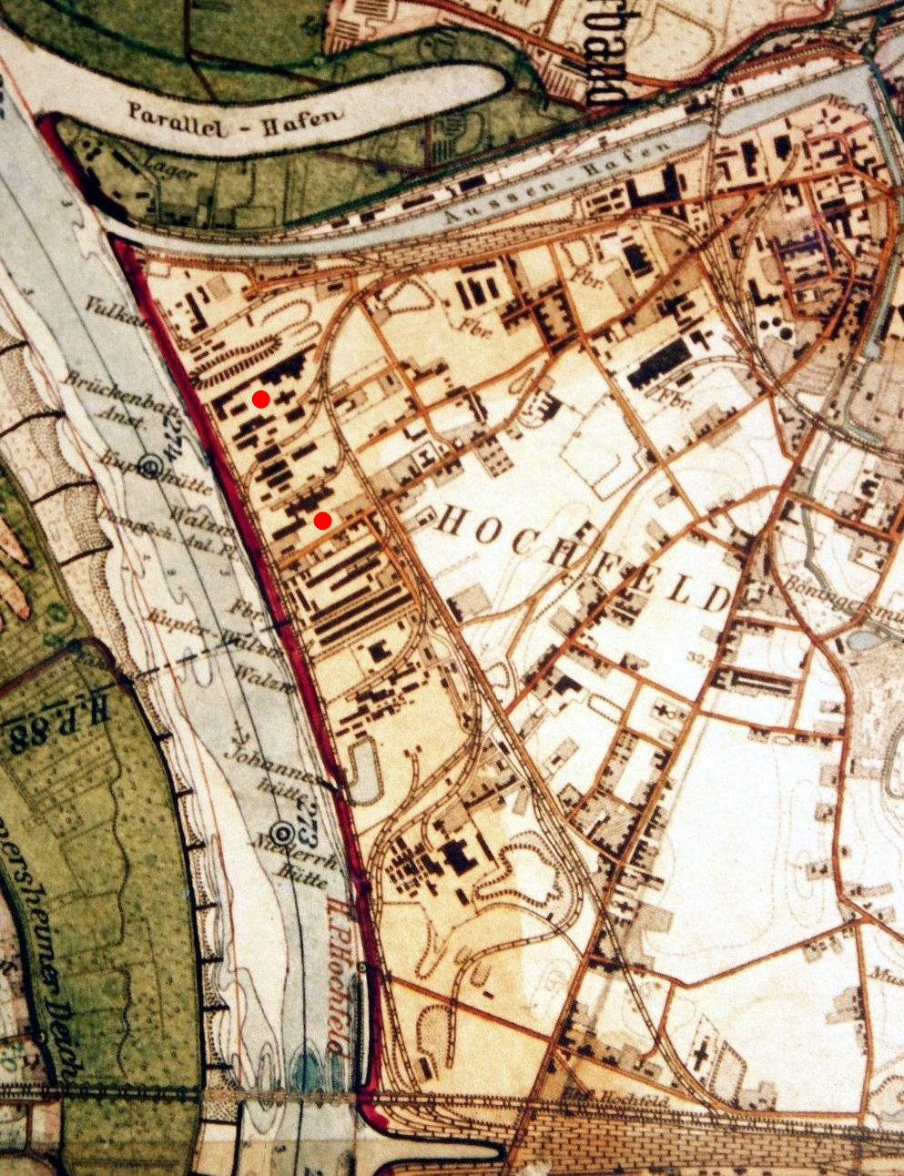 Duisburg Hochfeld 1892